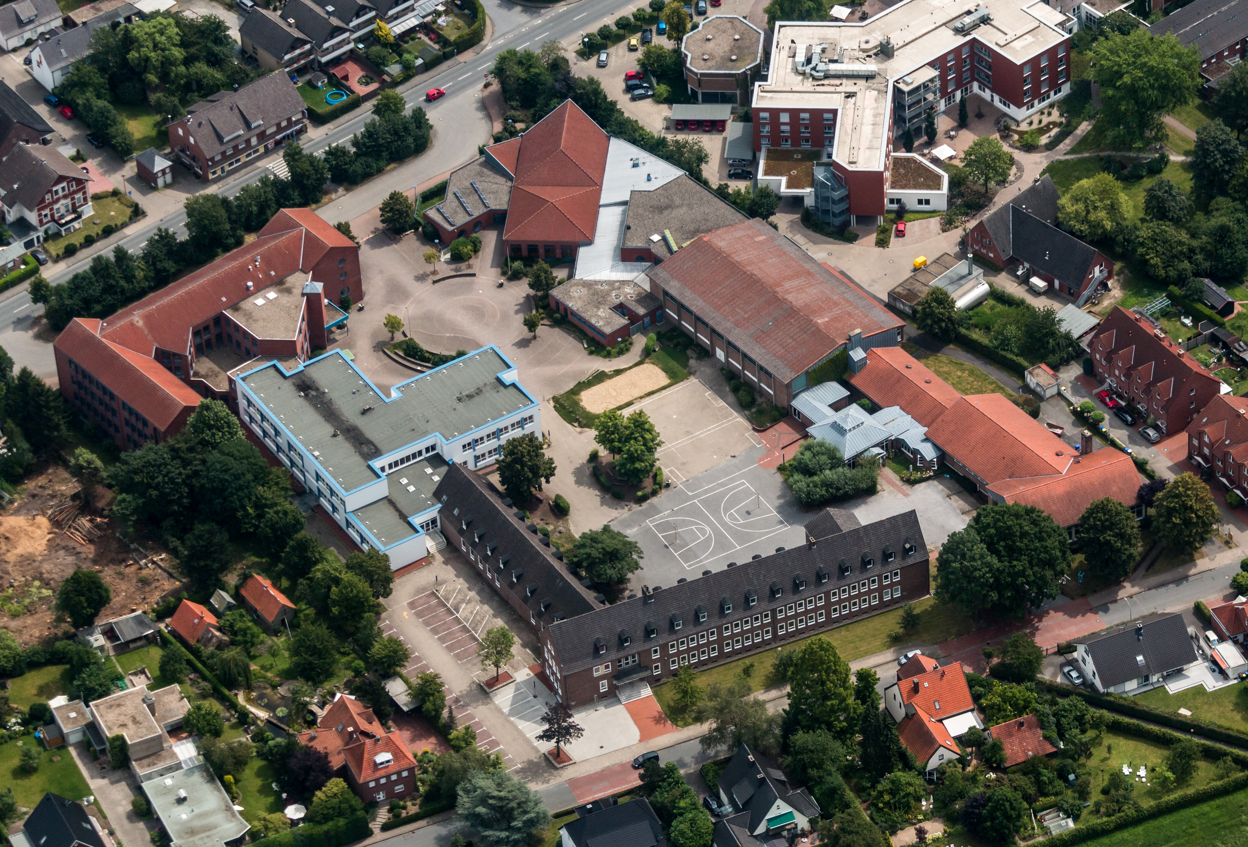 Kardinal von Galen Comprehensive School, Nordwalde, North Rhine-Westphalia, Germany